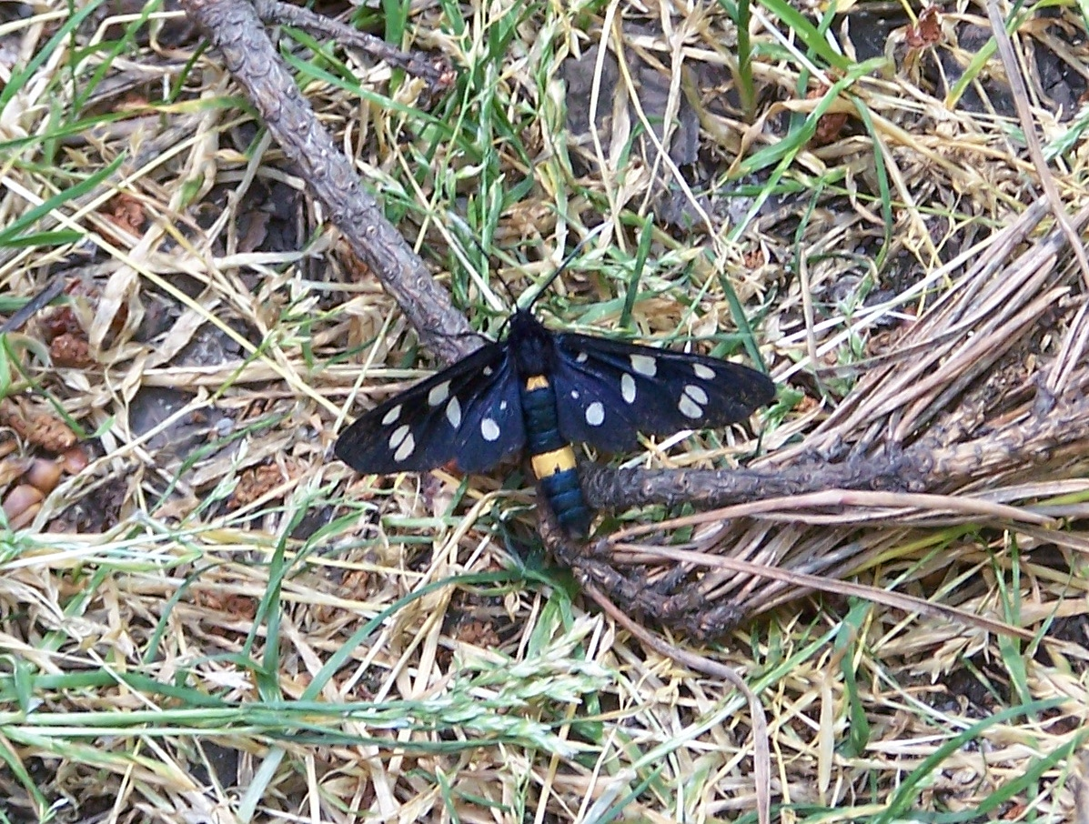 Nine-spotted moth (Amata phegea) on the litter in coniferous forest near Wroclaw (Poland)